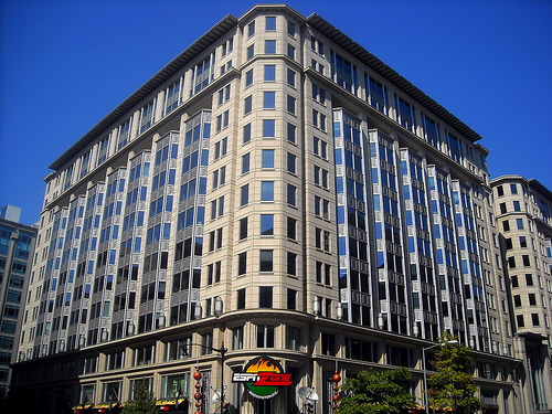 Thurman Arnold Building, named in honor of lawyer and Assistant Attorney General Thurman Arnold, located at 555 12th Street, NW in the Penn Quarter neighborhood of Washington Current tentants include Arnold & Porter, the law firm co-founded by Arnold.